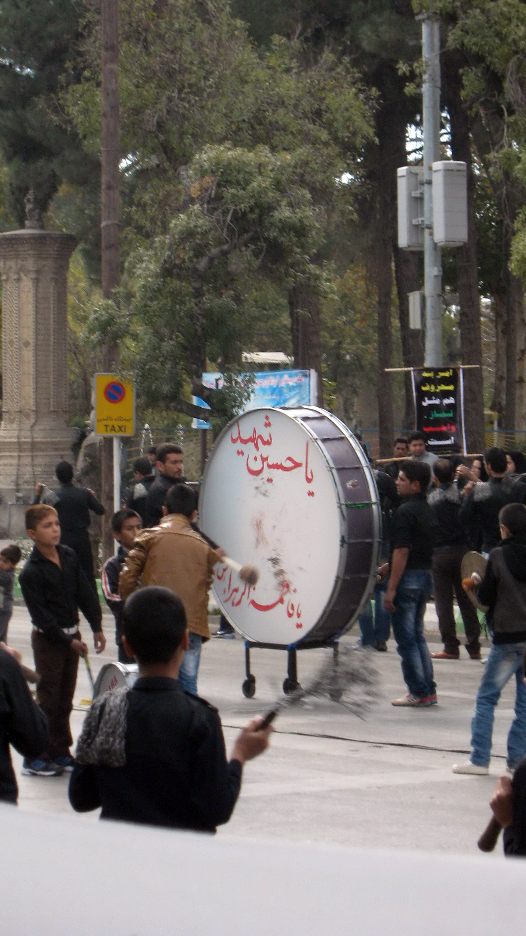 Mourning of Muharram - November13,2013 - Muharram 9,1435 Tasu'a - Zanjir,Mourners Line,Drummer - Nishapur 002